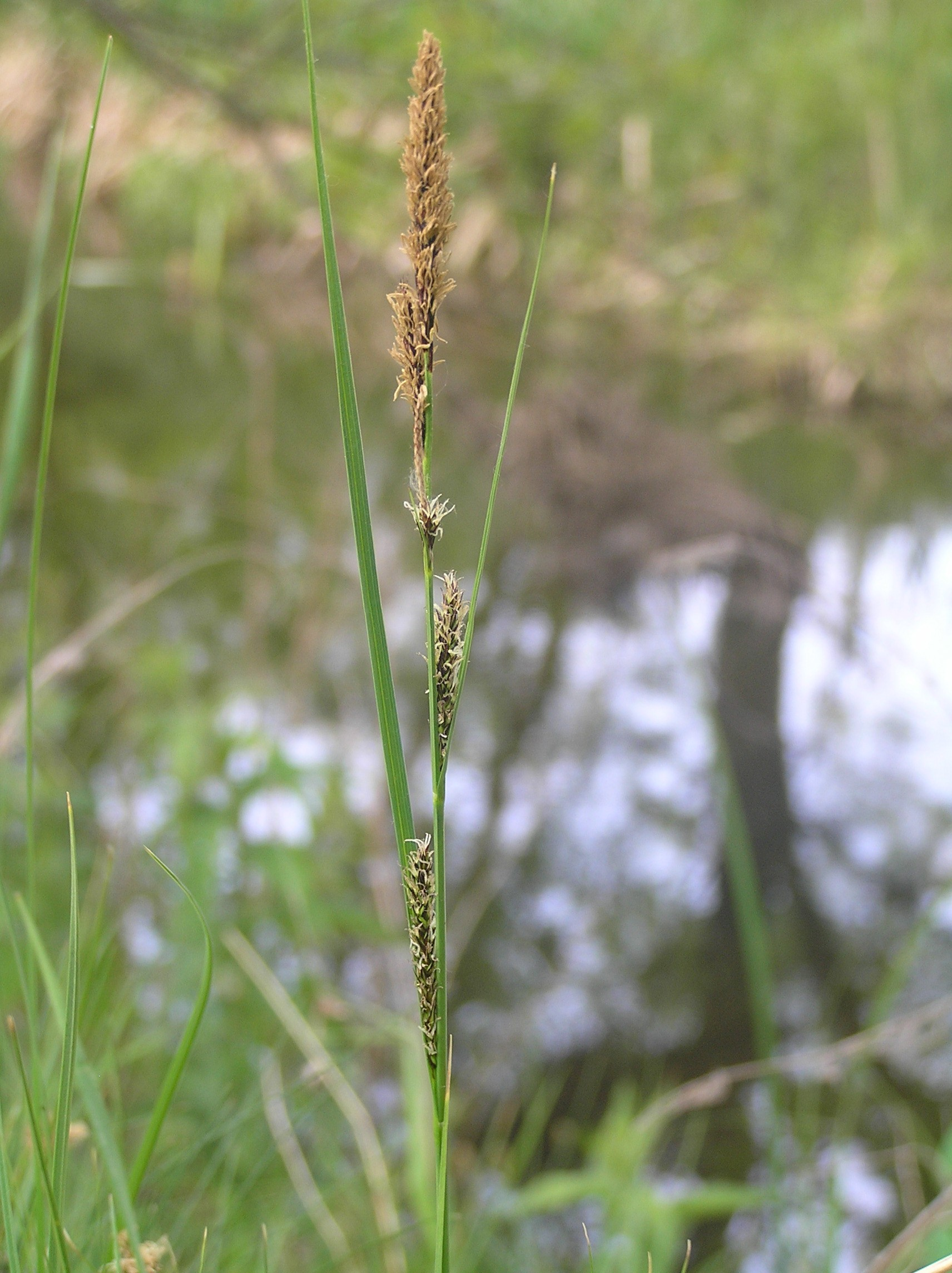 Carex melanostachya, Břeclav, Southern Moravia, Czech Republic